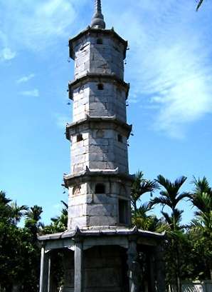 Bao Nghiem tower in But Thap pagoda, Bac Ninh, Vietnam